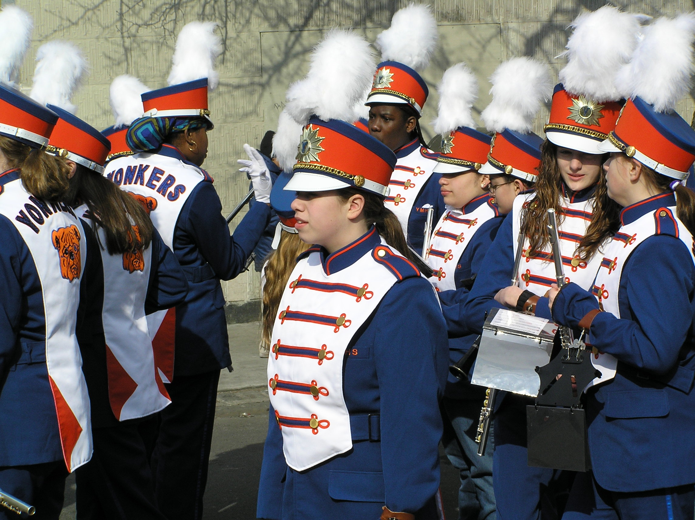 Yonkers High School students prepare for the Saint Patrick's Day Parade in Yonkers